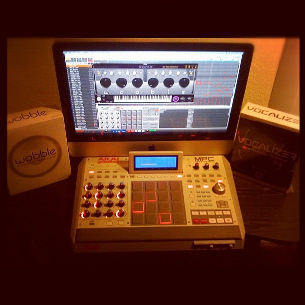 This is a picture of the Renaissance as setup in the studio